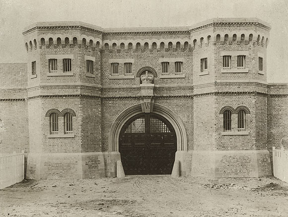 Grafton Gaol Dated: no date Digital ID: 4346_a020_a020000281 Rights: We'd love to hear from you if you use our photos. Many other photos in our collection are available to view and browse on our website using Photo Investigator.